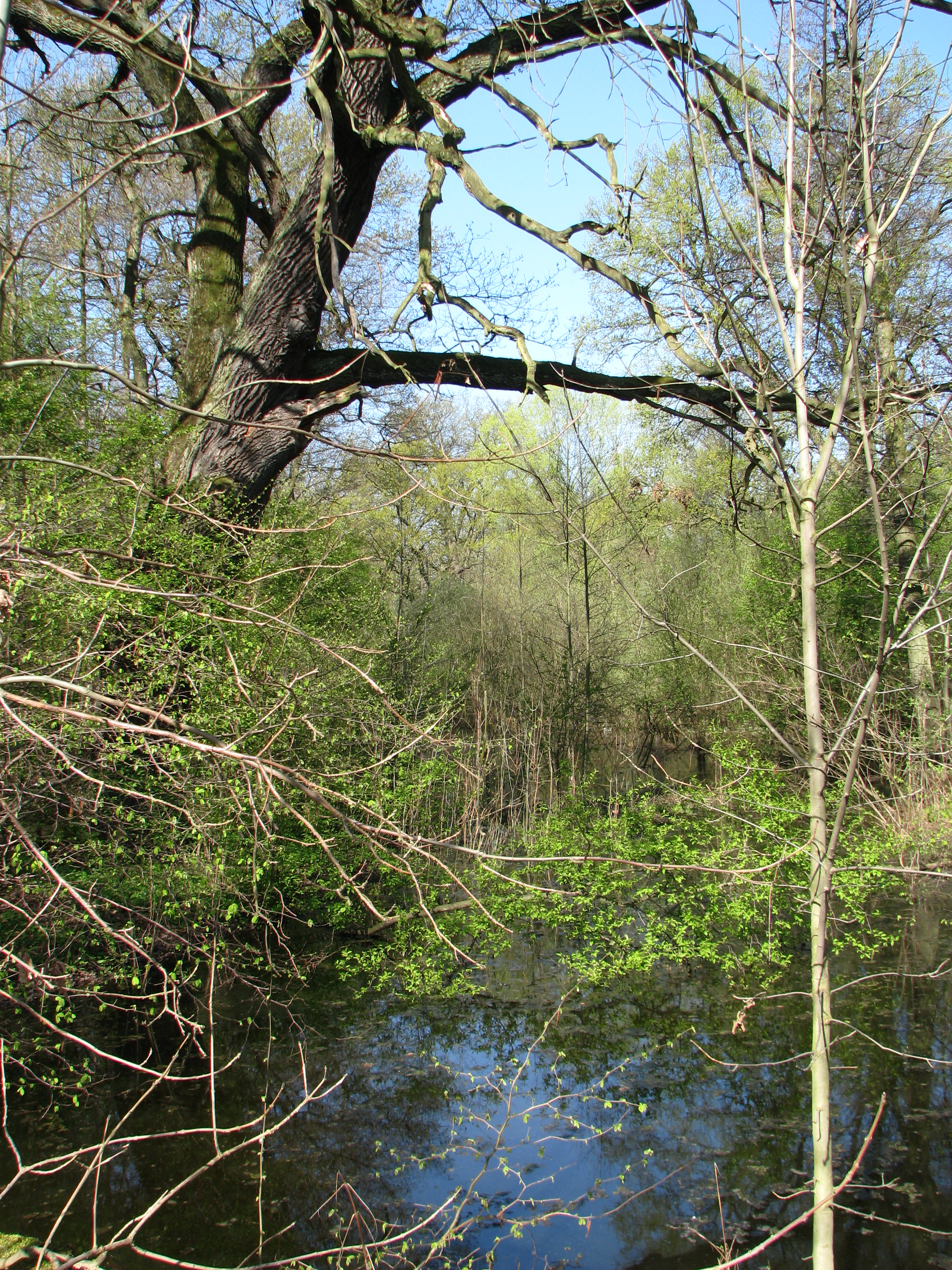 Soltysowicki Forest, Wrocław, Poland.